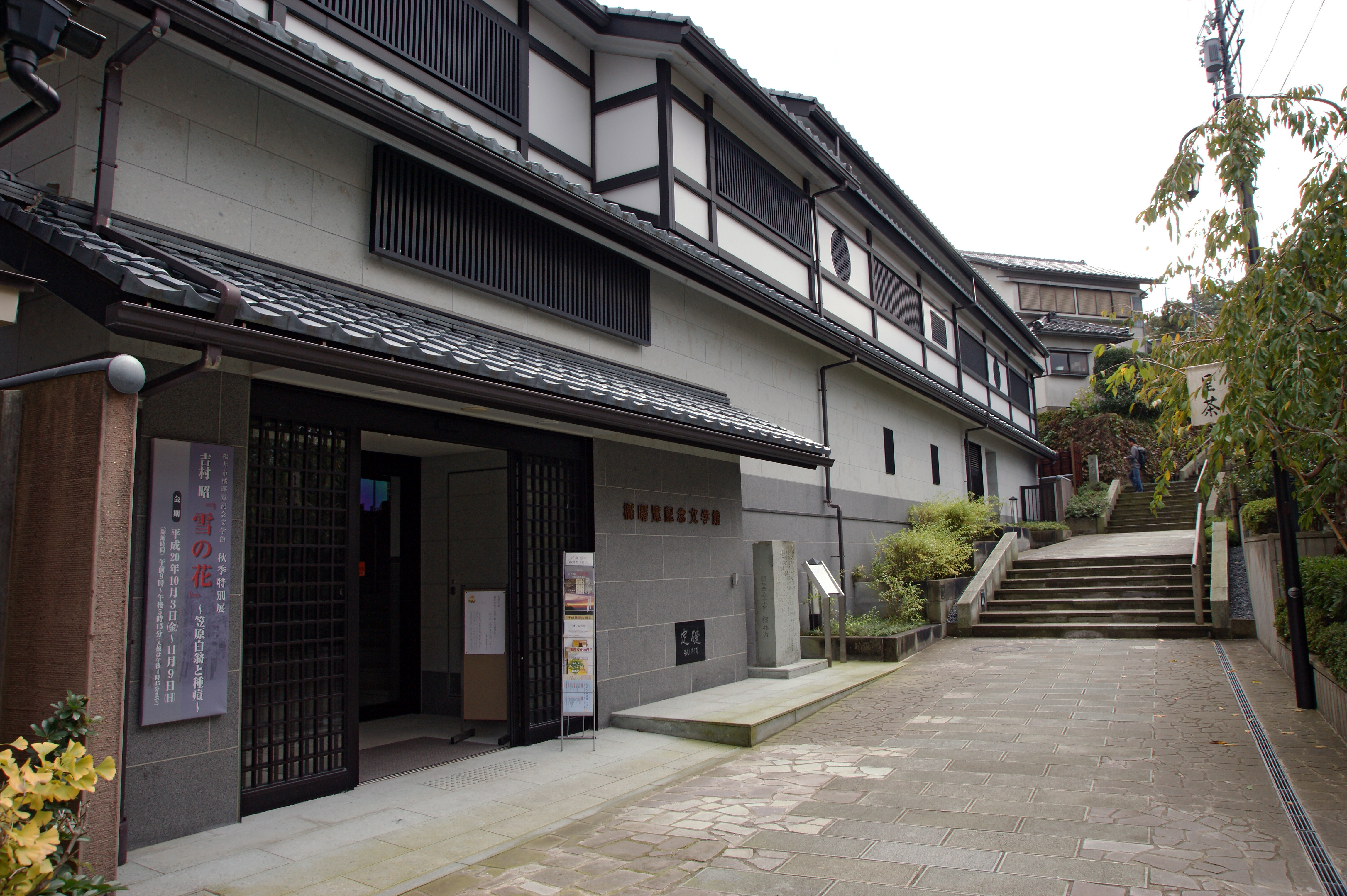 Fukui City Akemi Tachibana Literature Memorial Museum, Fukui, Fukui prefecture, Japan